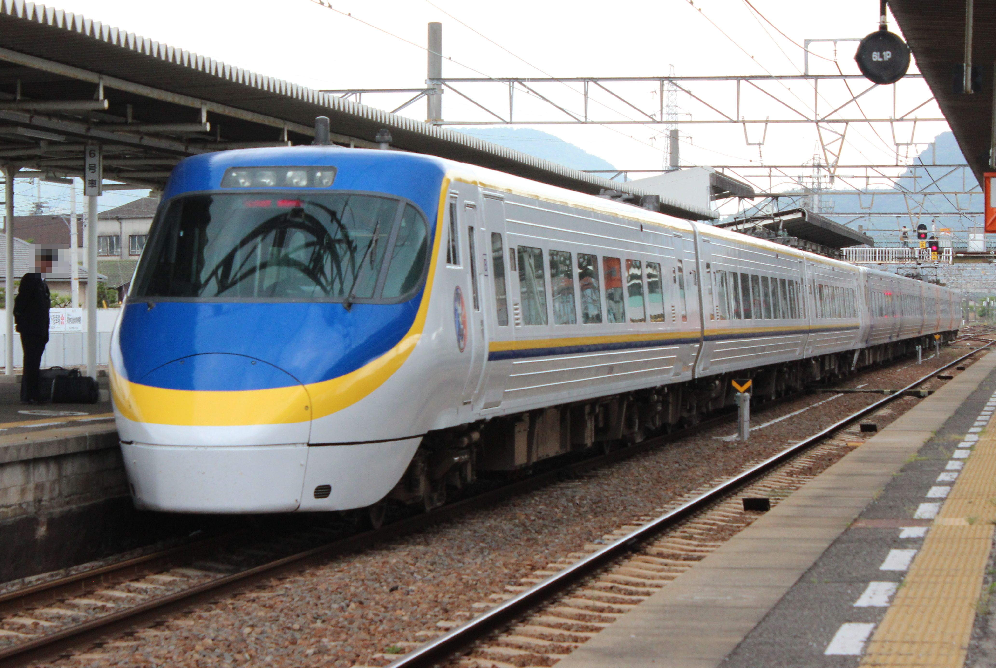 A JR Shikoku 8000 series EMU in special Taiwan Railways Administration EMU800 livery at Tadotsu Station